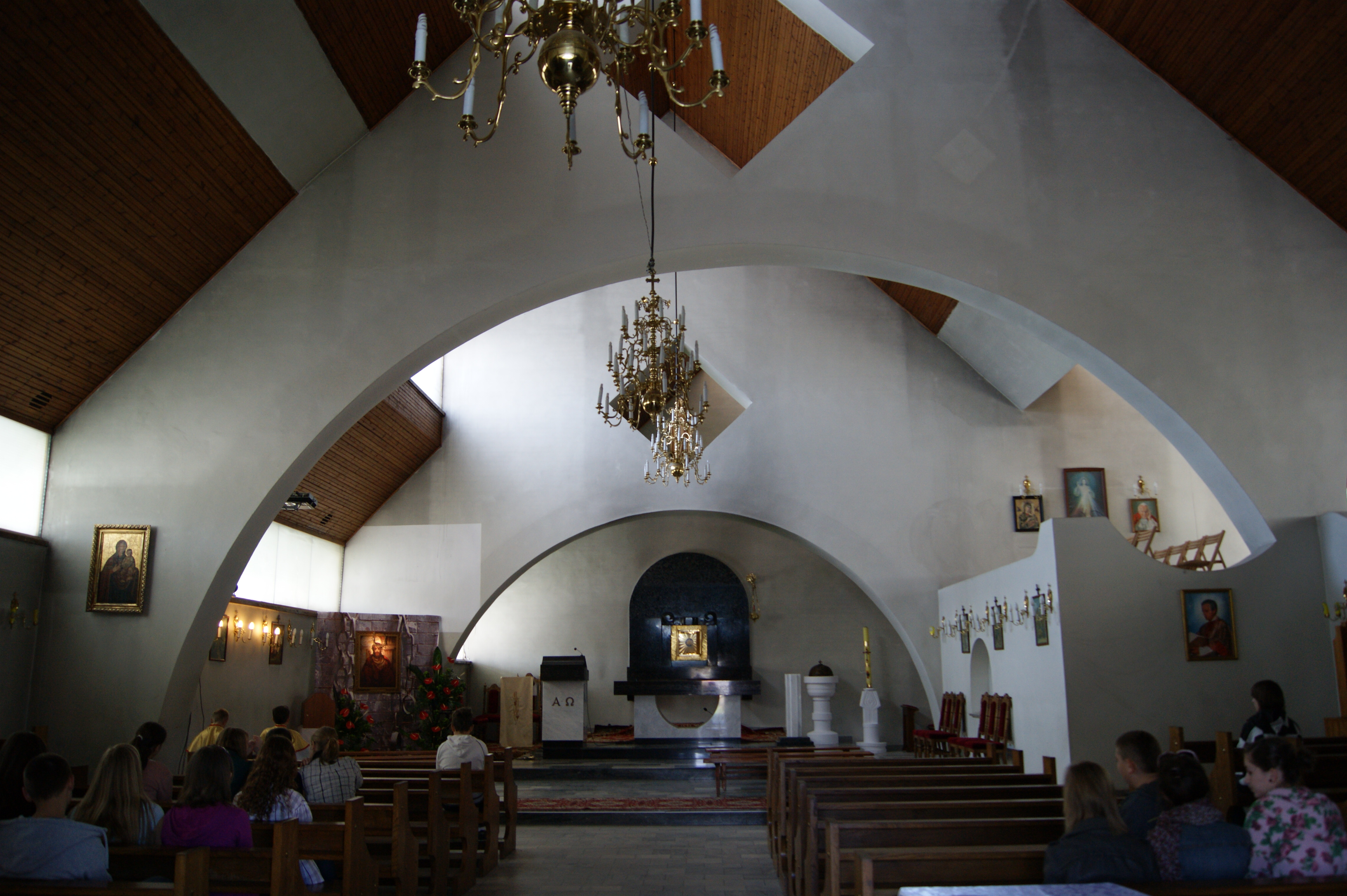 Church of Immaculate Heart of Mary (inside), 100 Pollanki street, Krakow, Poland